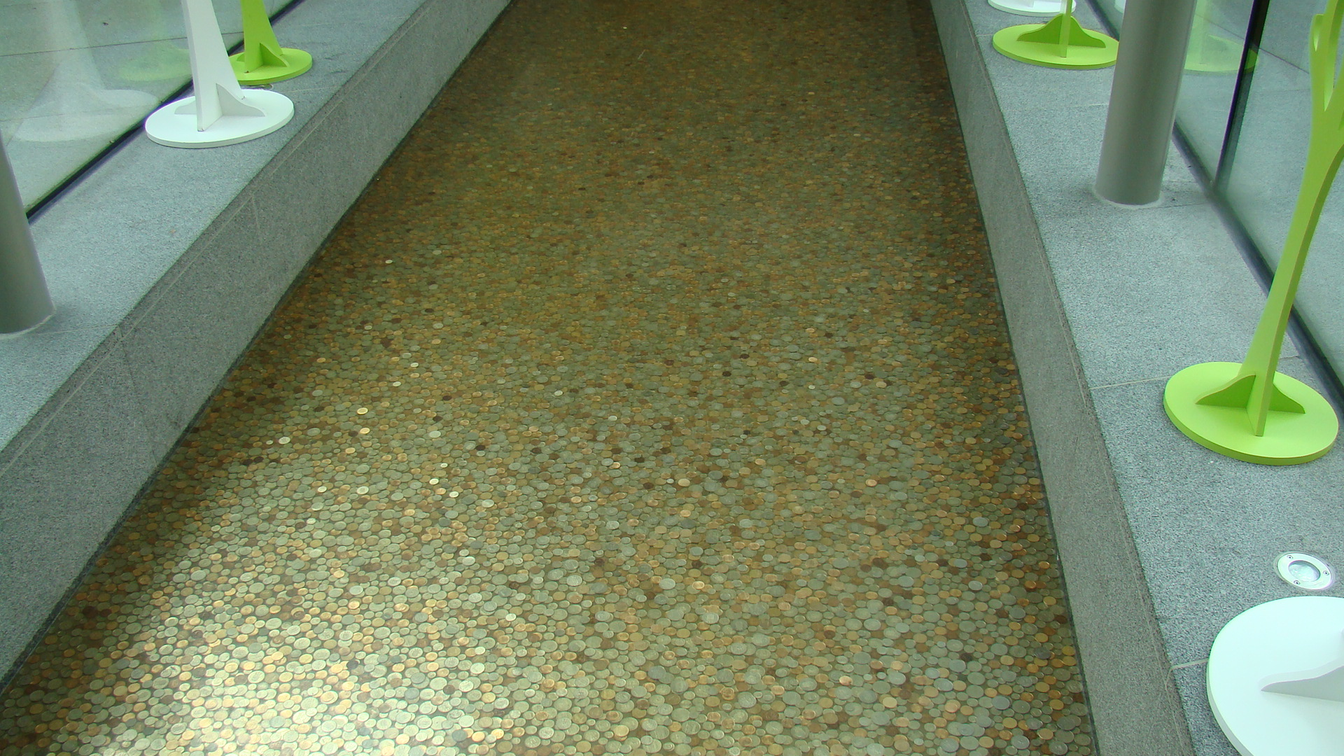 Path of coins at the Moneymuseum at Utrecht, Netherlands